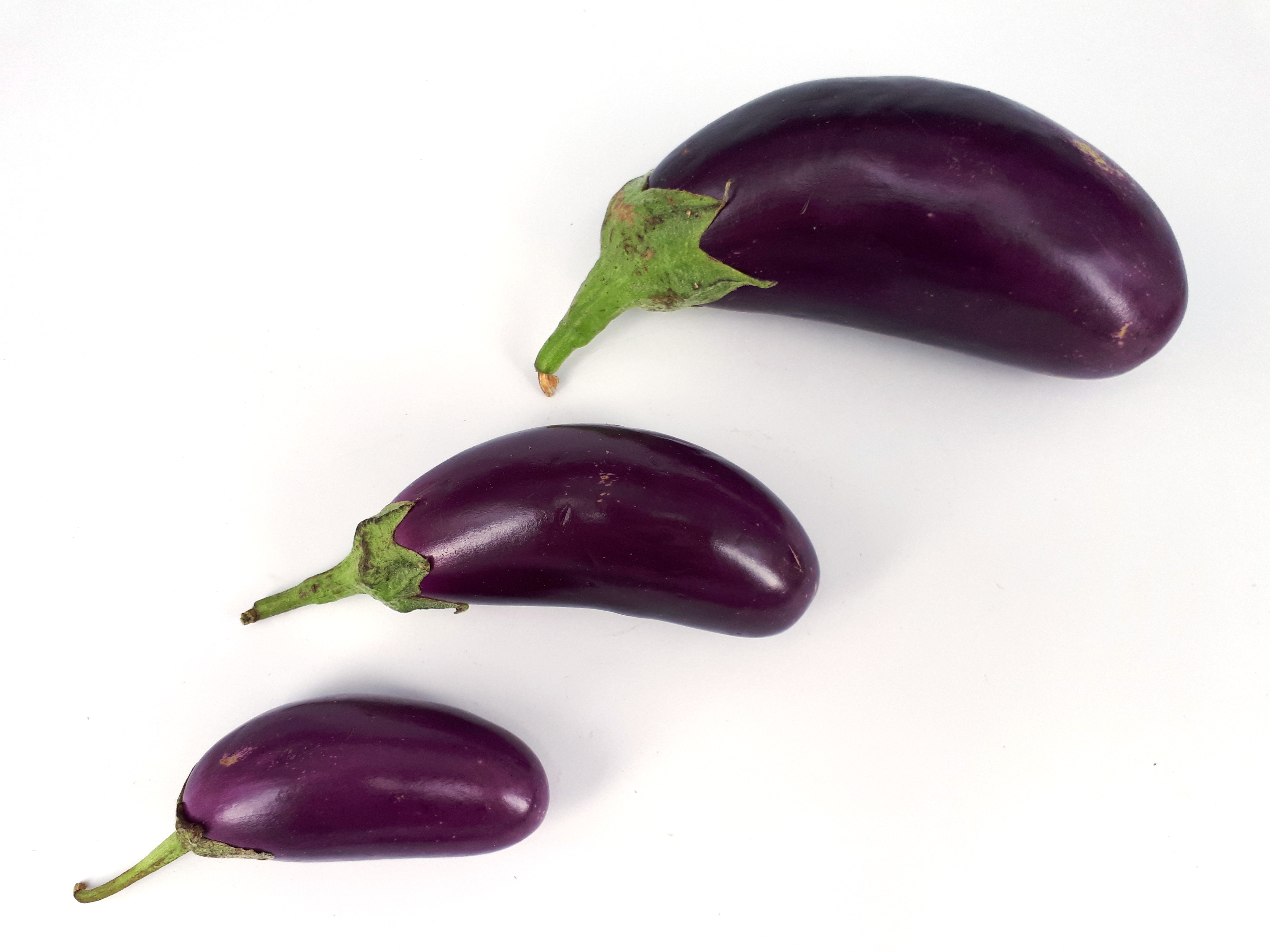 3 x Small Japanese eggplant (probably)